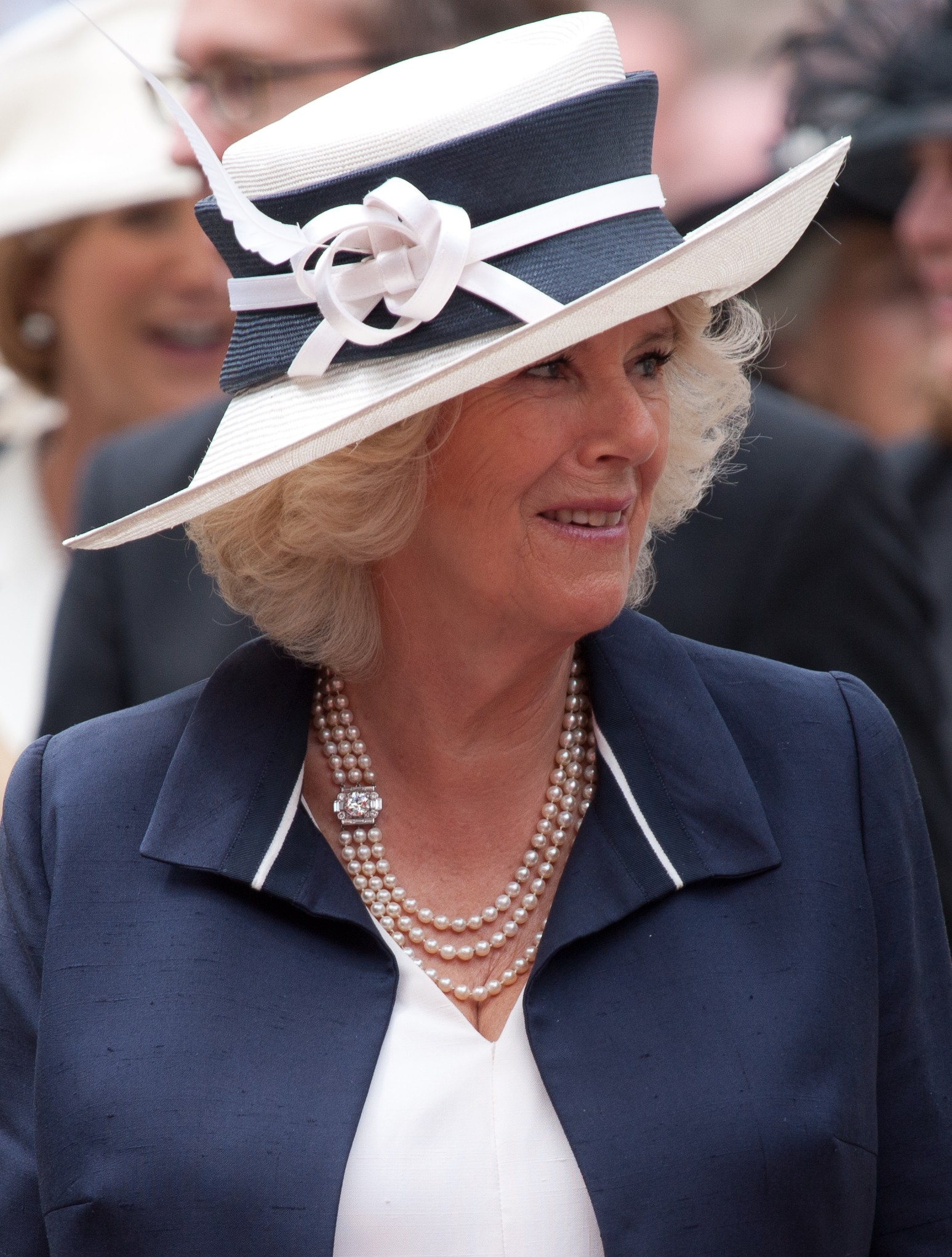 Camilla, Duchess of Cornwall in Jersey for the 2012 Royal Visit.